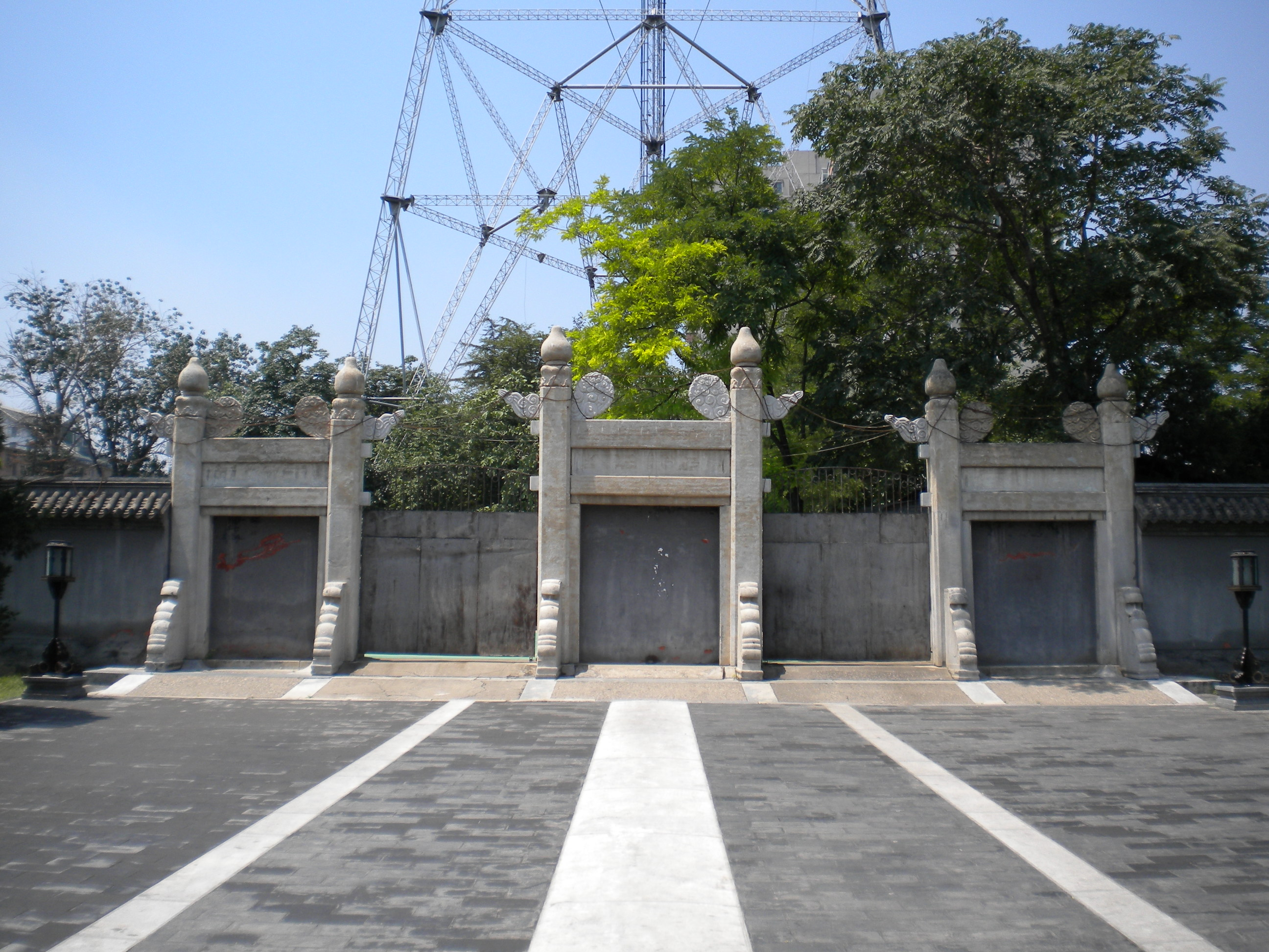 北京月坛棂星门/Lingxing Gate (Temple of the Moon)